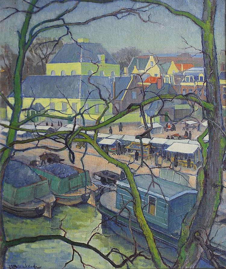 Channel in Amsterdam